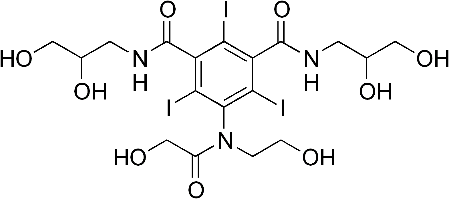 chemical structure of ioversol